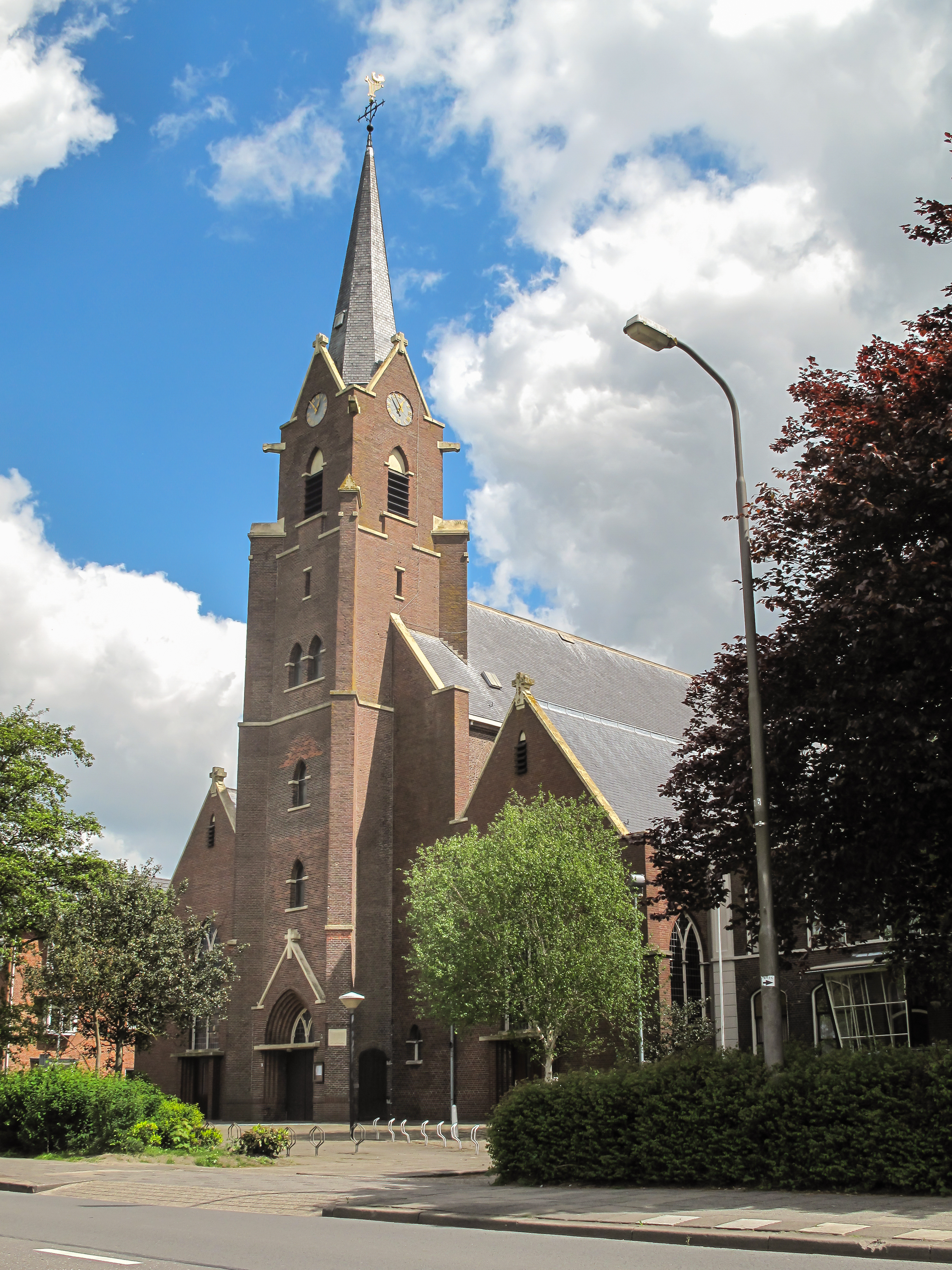 Berkel en Rodenrijs, church: de Onze Lieve Vrouw Geboortekerk